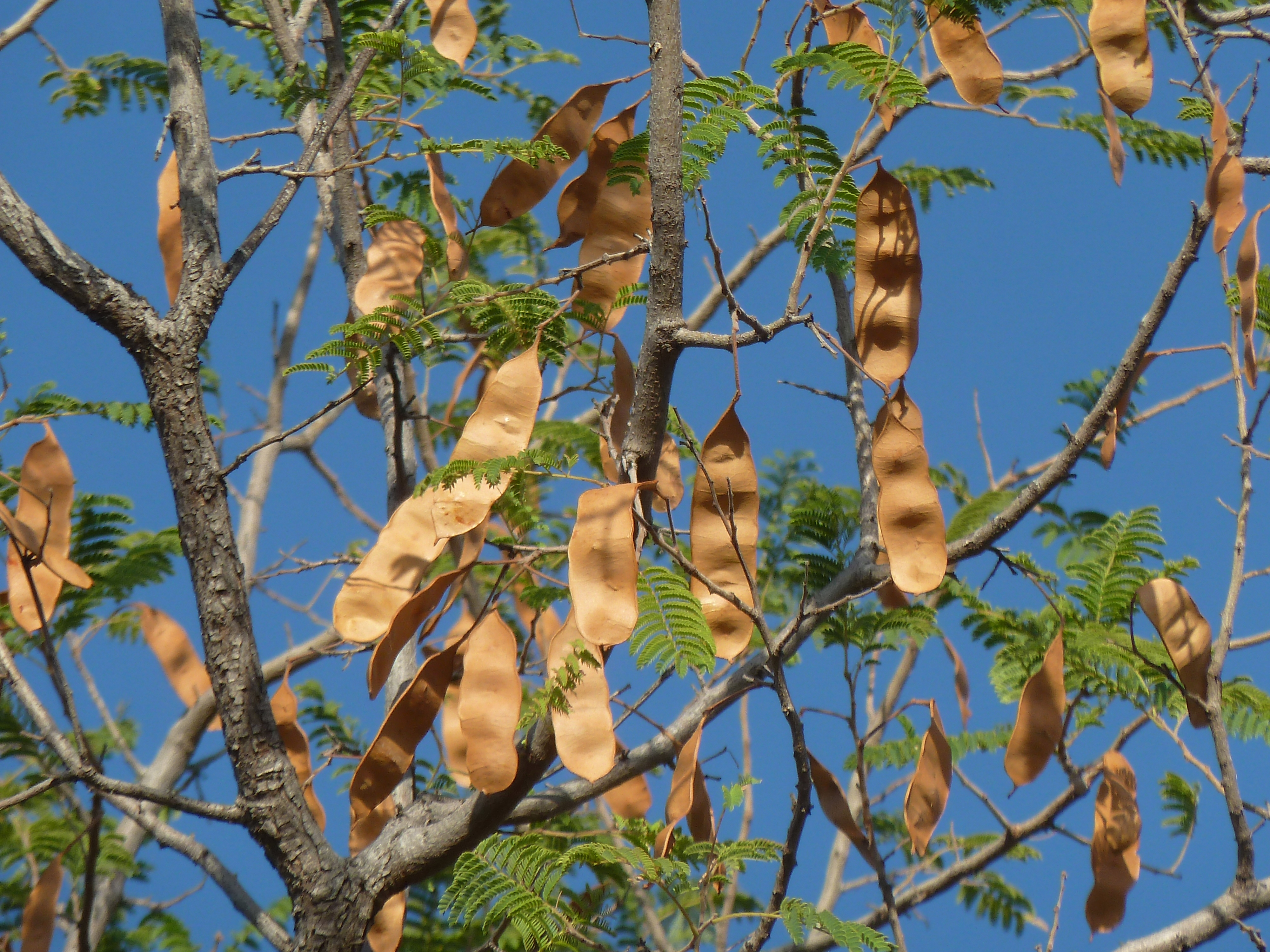 Pods and foliage of a Sickle-leaved albizia near Steenbokpan, Limpopo